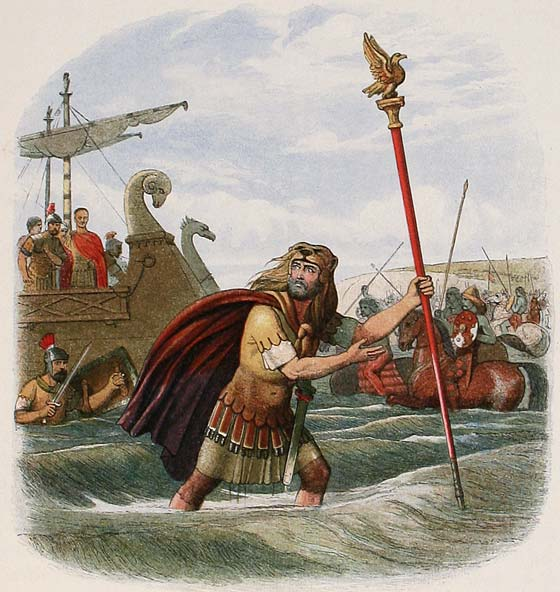 The Standard-Bearer of the Tenth Legion: a portrayal of the Roman Tenth Legion's landing at England in 55 BC—the standard-bearer leaped ashore, inspiring the rest to follow.